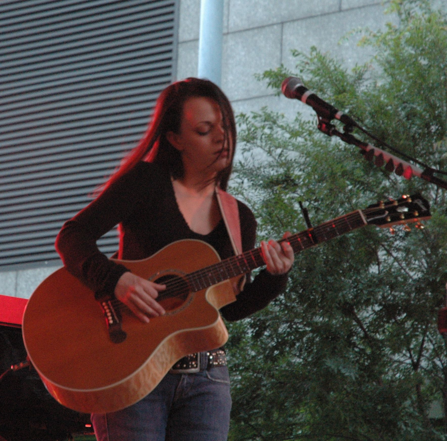 Mindy Smith at the Momentum Telecom Stage